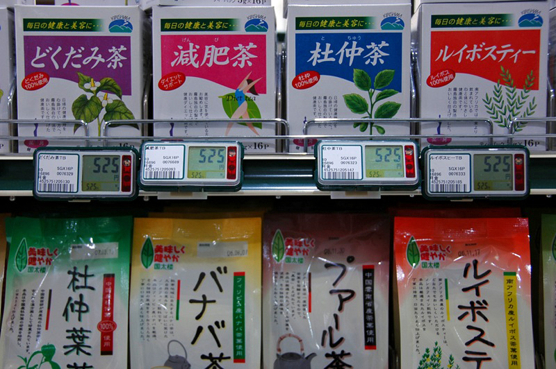 Electronic price tags.